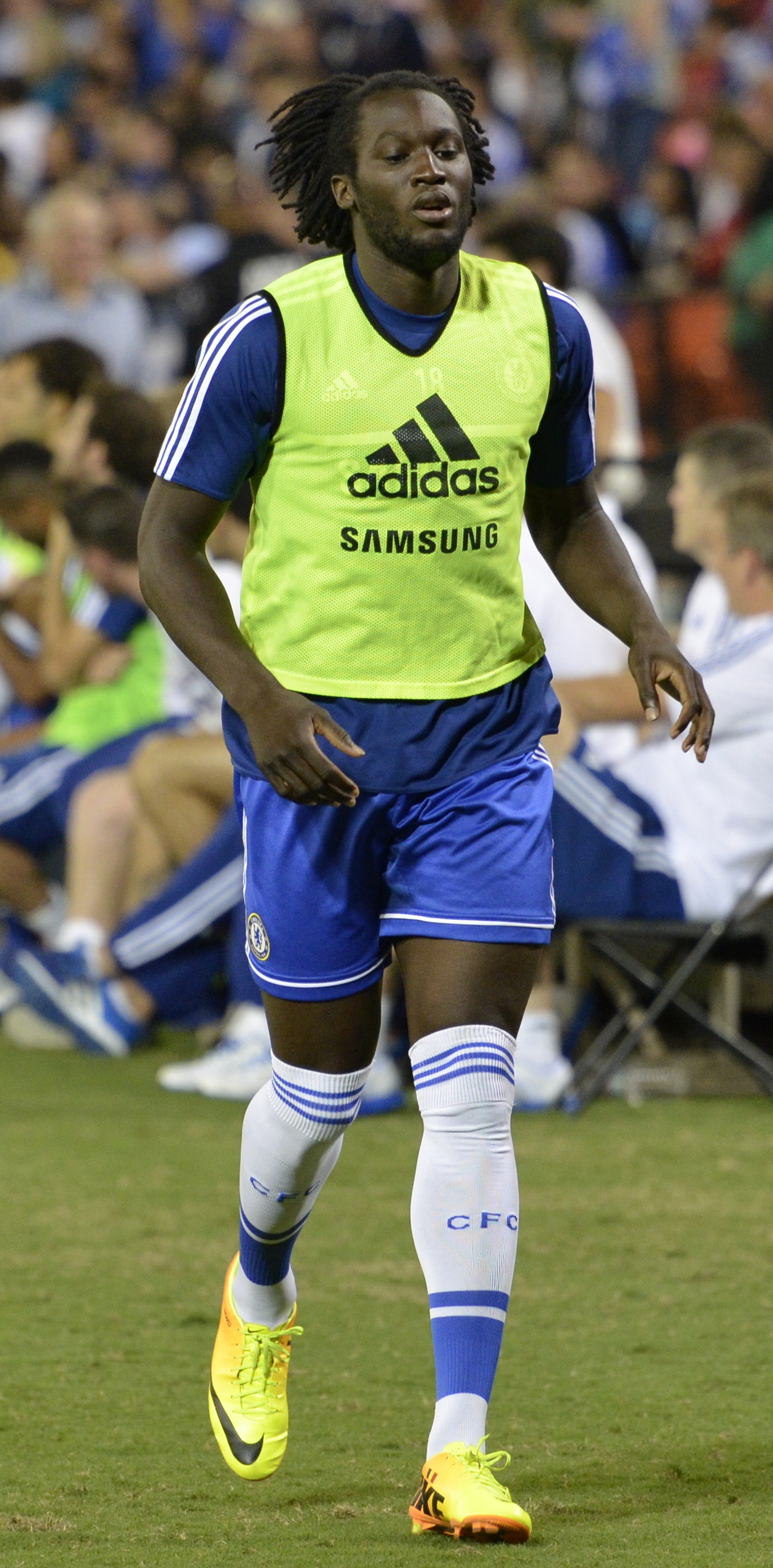 Romelu Lukaku warming up prior to a friendly game against A.S. Roma at RFK Stadium in Washington D.C. (August 2013).